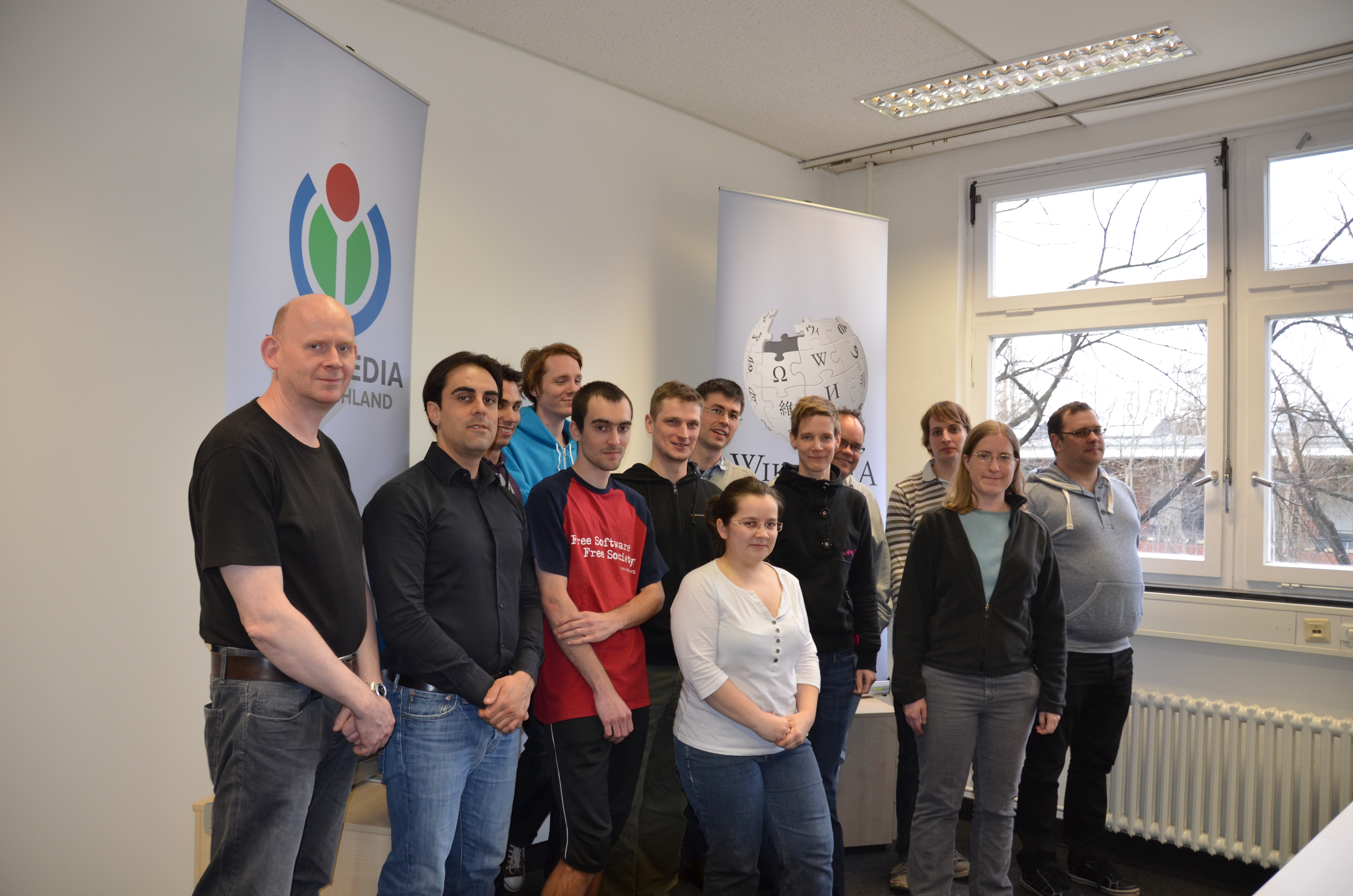 The Wikidata Team: John Erling Blad, Abraham Taherivand, Tobias Gritschacher, Jeroen De Dauw, Henning Snater, Lydia Pintscher, Daniel Kinzler, Markus Krötzsch, Silke Meyer, Denny Vrandečić, Katie Filbert, Daniel Werner, Jens Ohlig.